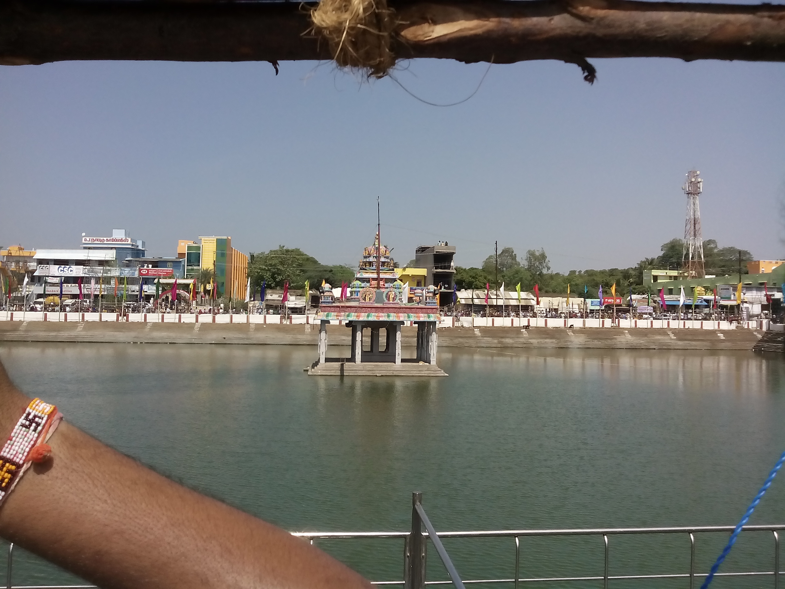 Thiruporur Mungan Temple Water Tank taken on HIS Kumbaishekam